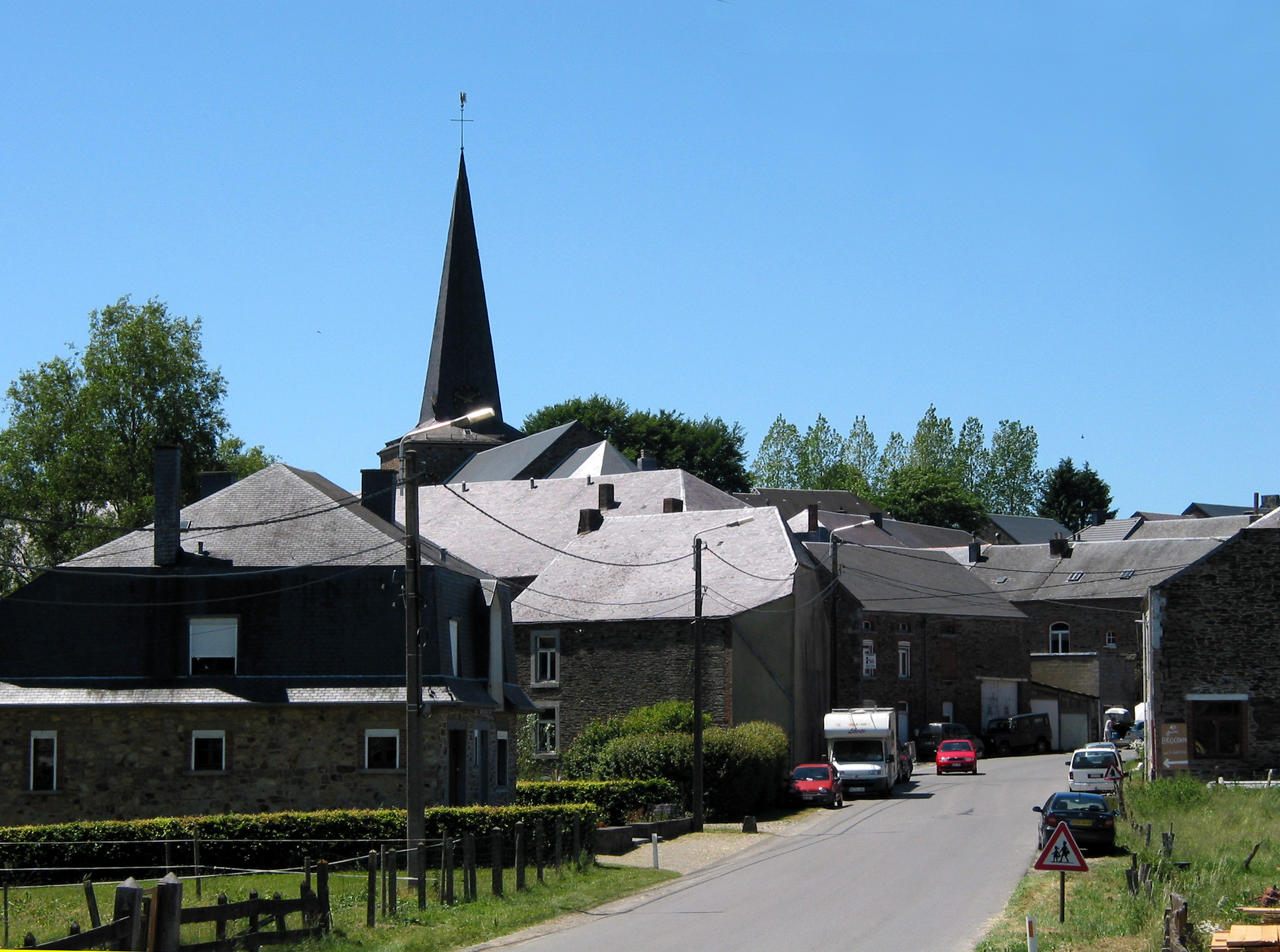 Willerzie (Belgium), the de Coubry street .